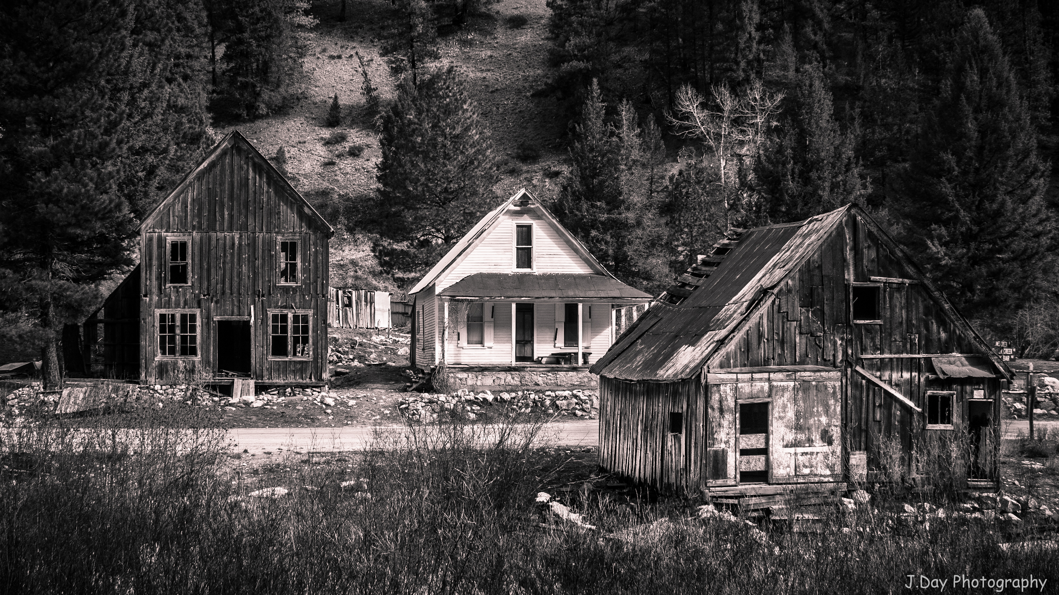 Rocky Bar, Idaho Ghost town Taken 11-3-2012 by J.Day Photography